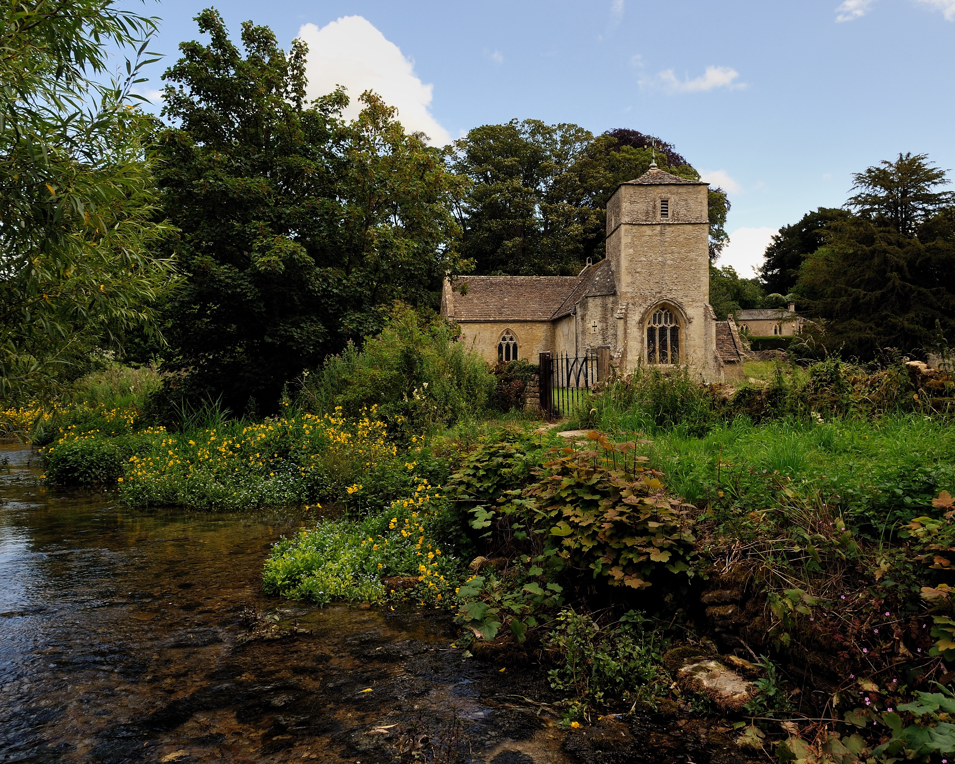 St Michael and St Martin's Church, Eastleach Martin, is a redundant Anglican church in Eastleach Martin, Gloucestershire, England. It has been designated by English Heritage as a Grade I listed building, and is under the care of the Churches Conservation Trust. The church stands close to the River Leach. The church was founded in the 12th century by Richard Fitzpons, whose son granted it to Great Malvern Priory in 1120.